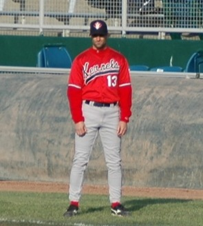 Justin Baughman, coach, with the Cedar Rapids Kernels during a game in 2005 in Lansing, Michigan